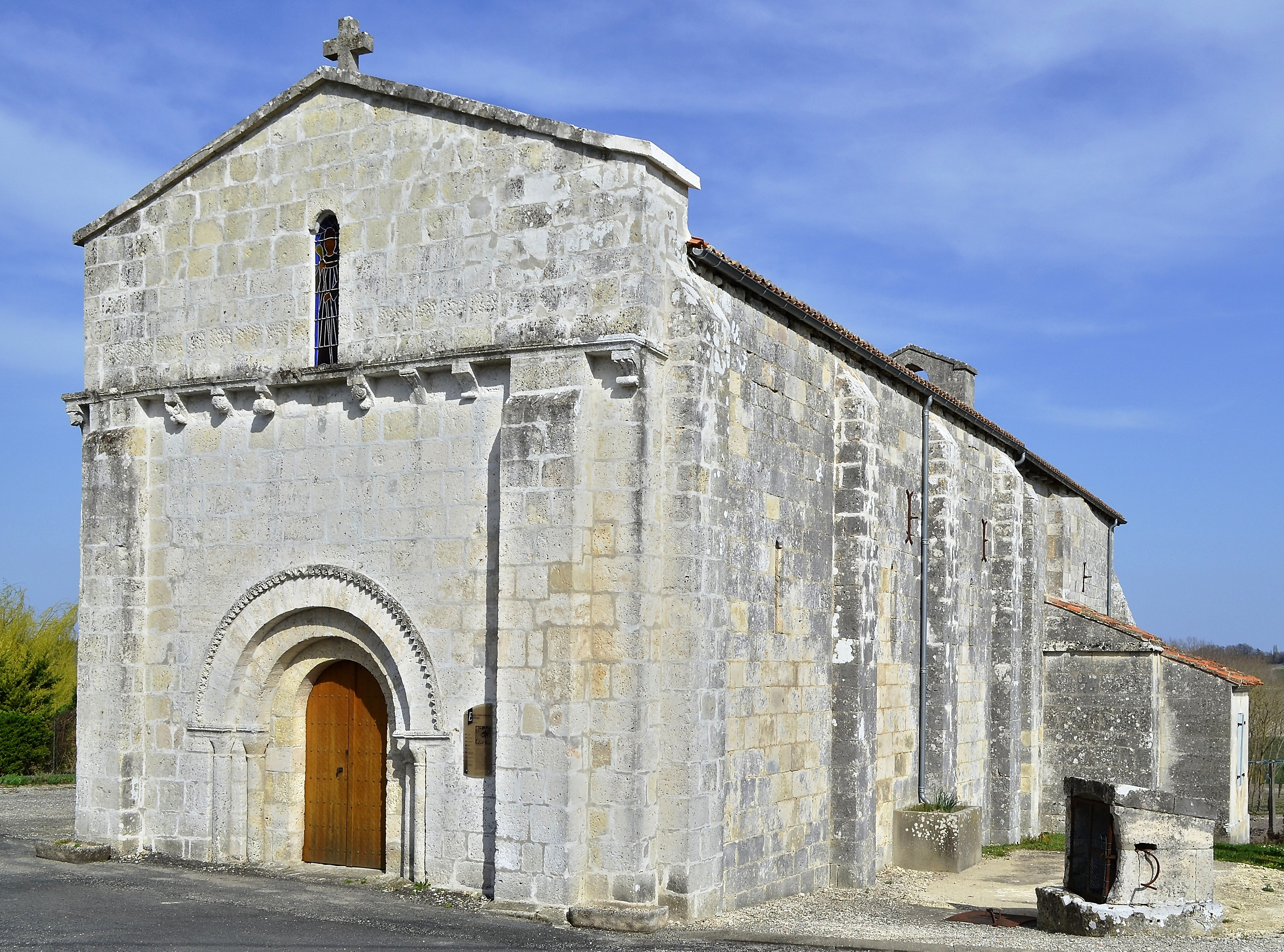 Church (XIIth century) and old well, Étriac, Charente, France. .